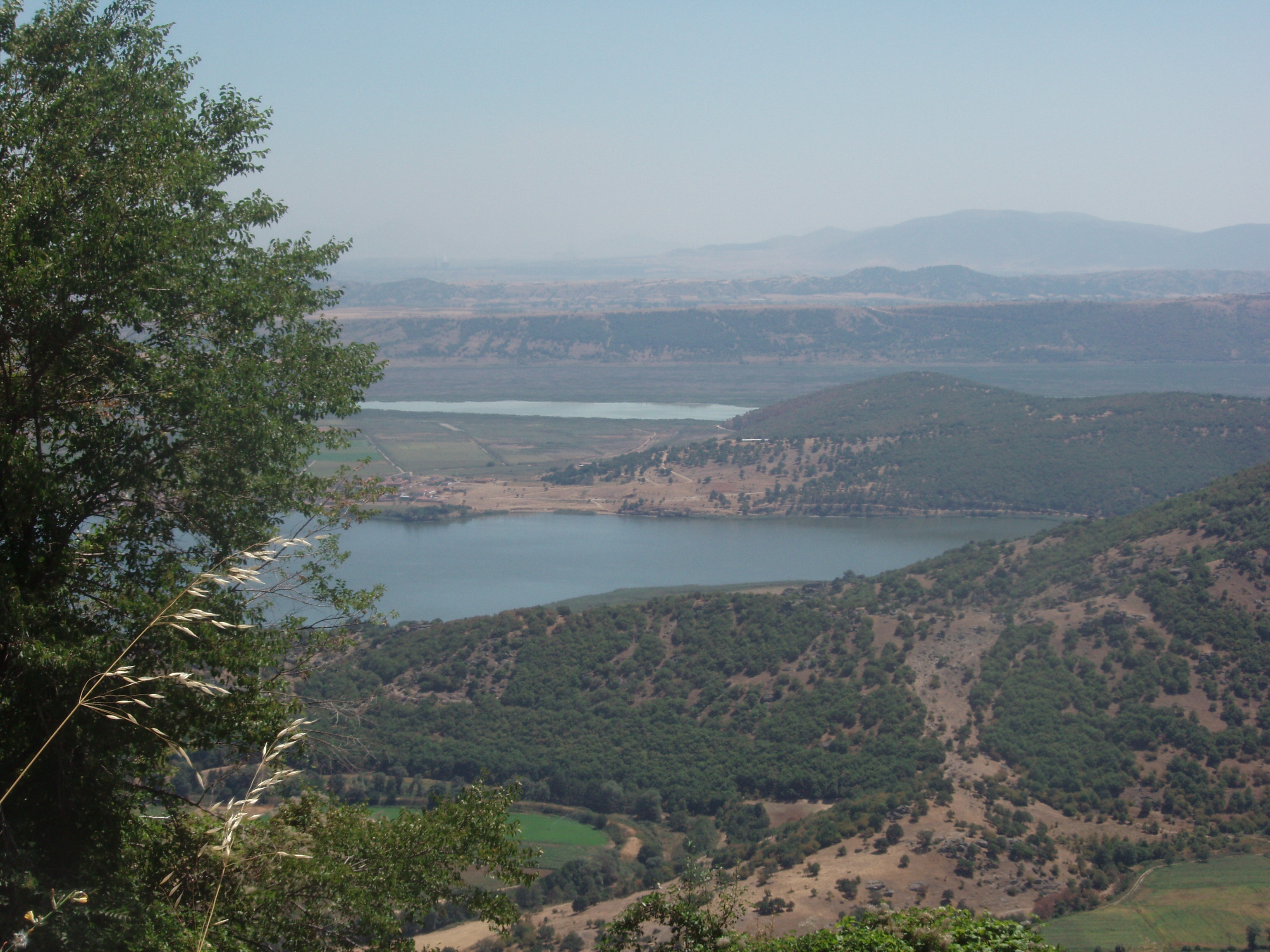 Lake Chimatitida and Lake Zazari, Florina prefecture, Greece. Picture was taken from Aetos-Nymfeo road (viewing direction south/southwest)